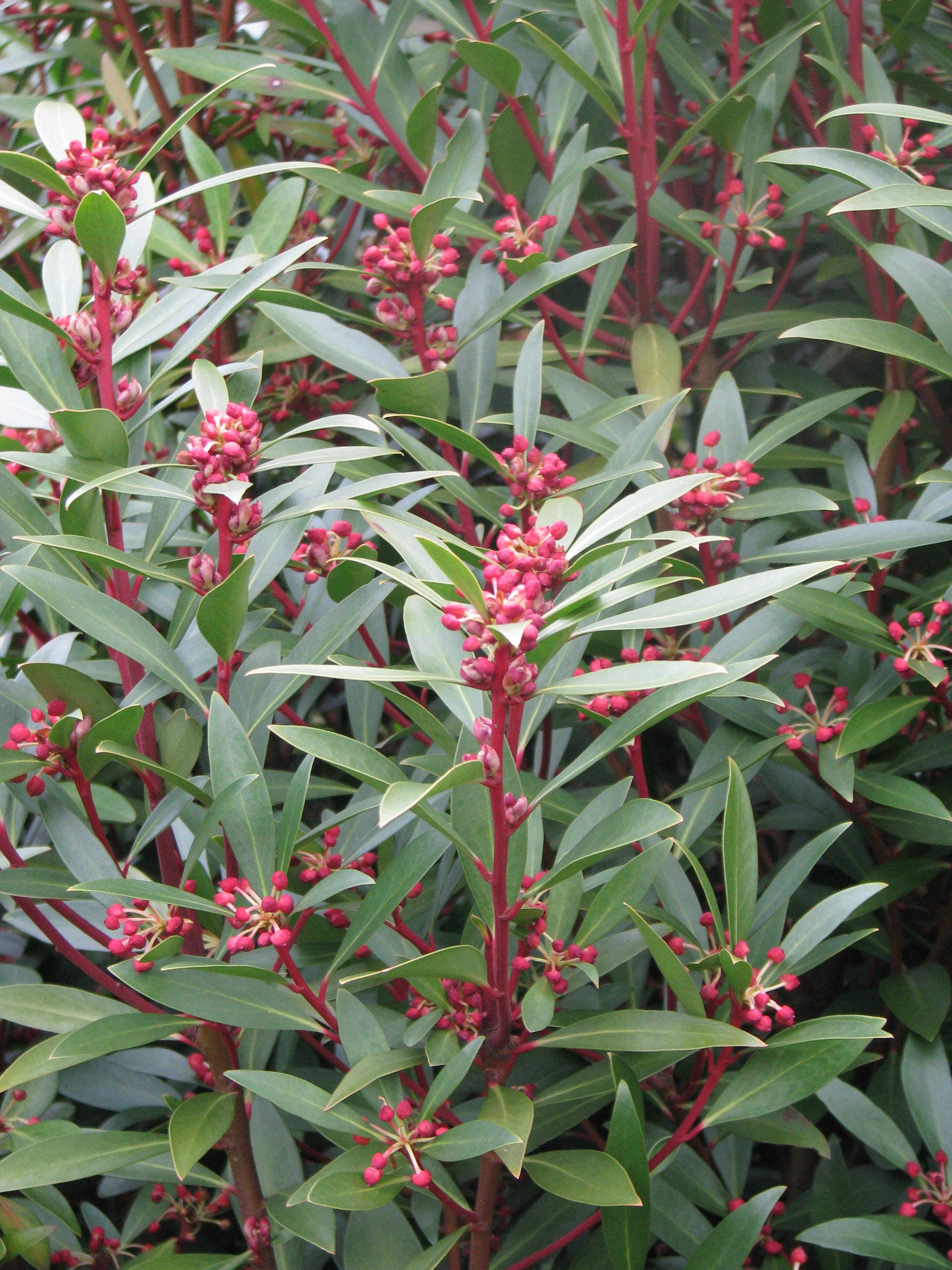 I don't remember other specimens I've seen of this with such striking pink buds